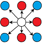 1st and 2nd level neighborhood in Markov random fields (MRF)